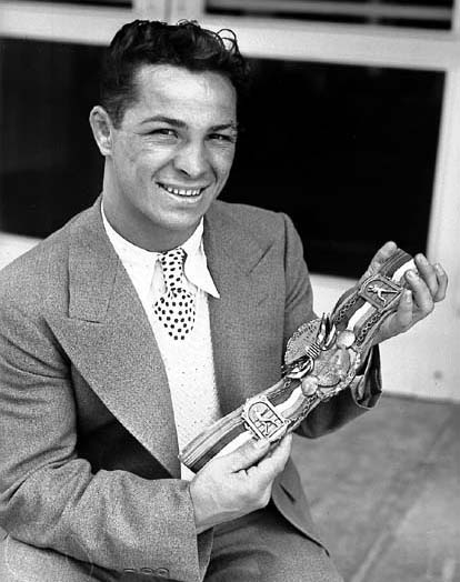 Tommy Paul holding his world championship.